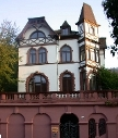 FIIT Heidelberg (Forschungszentrum Internationale Interdisziplinäre Theologie/Research Center for International and Interdisciplinary Theology)